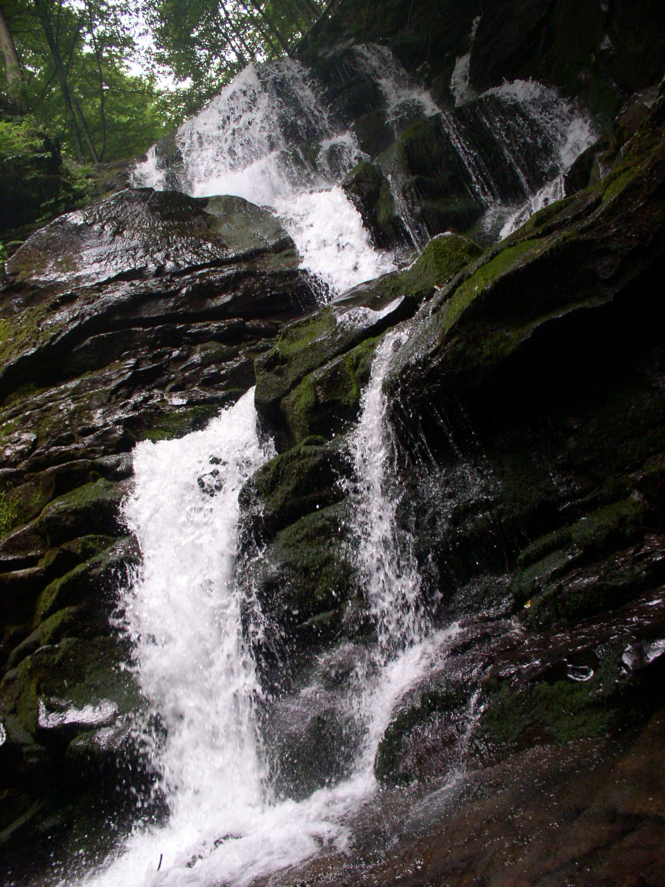 Waterfall Shypot, Ukraine.